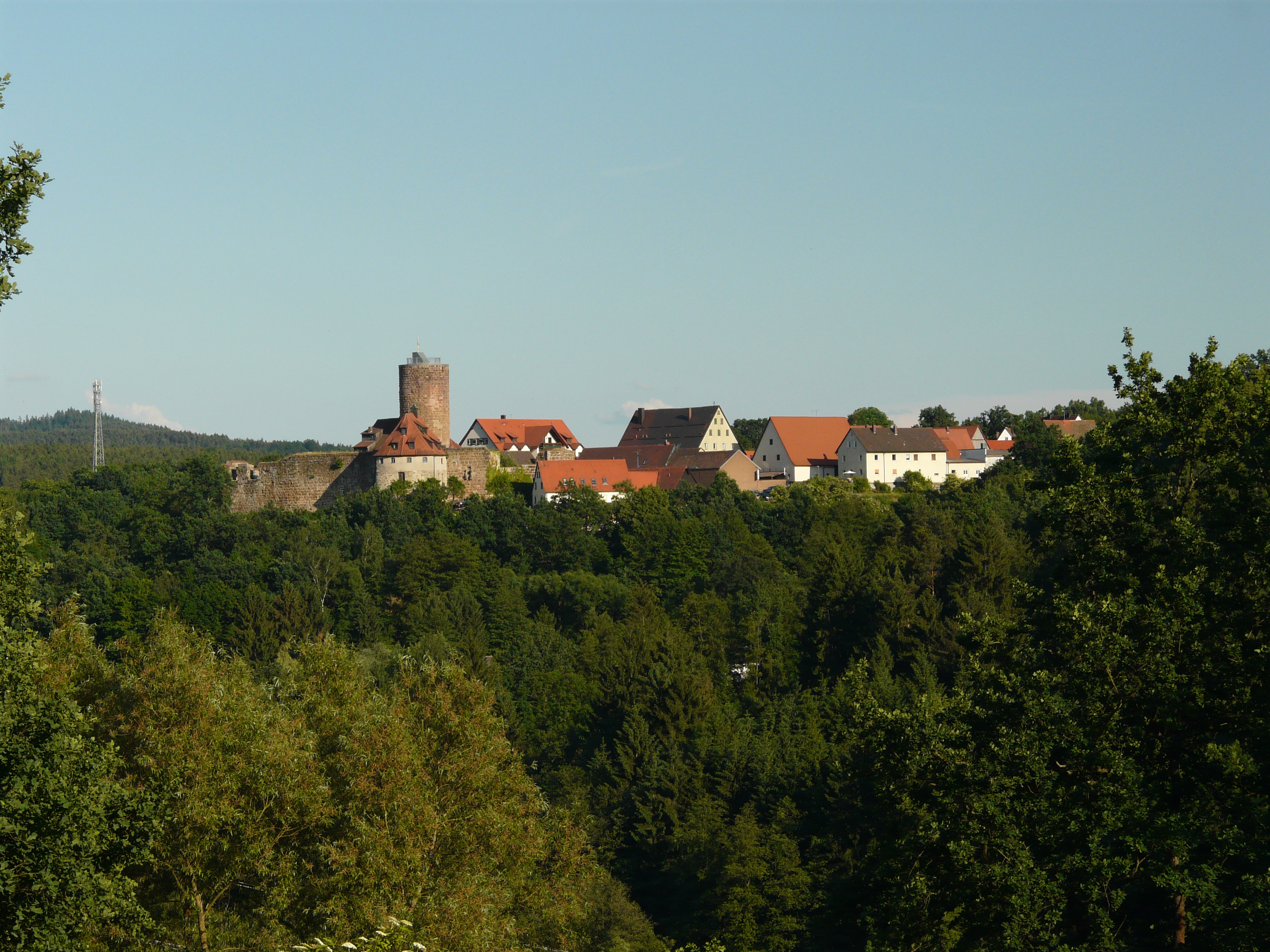 The village Burgthann